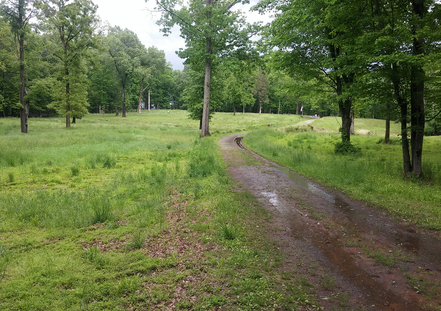 Ball's Bluff battlefield, view from Confederate positions